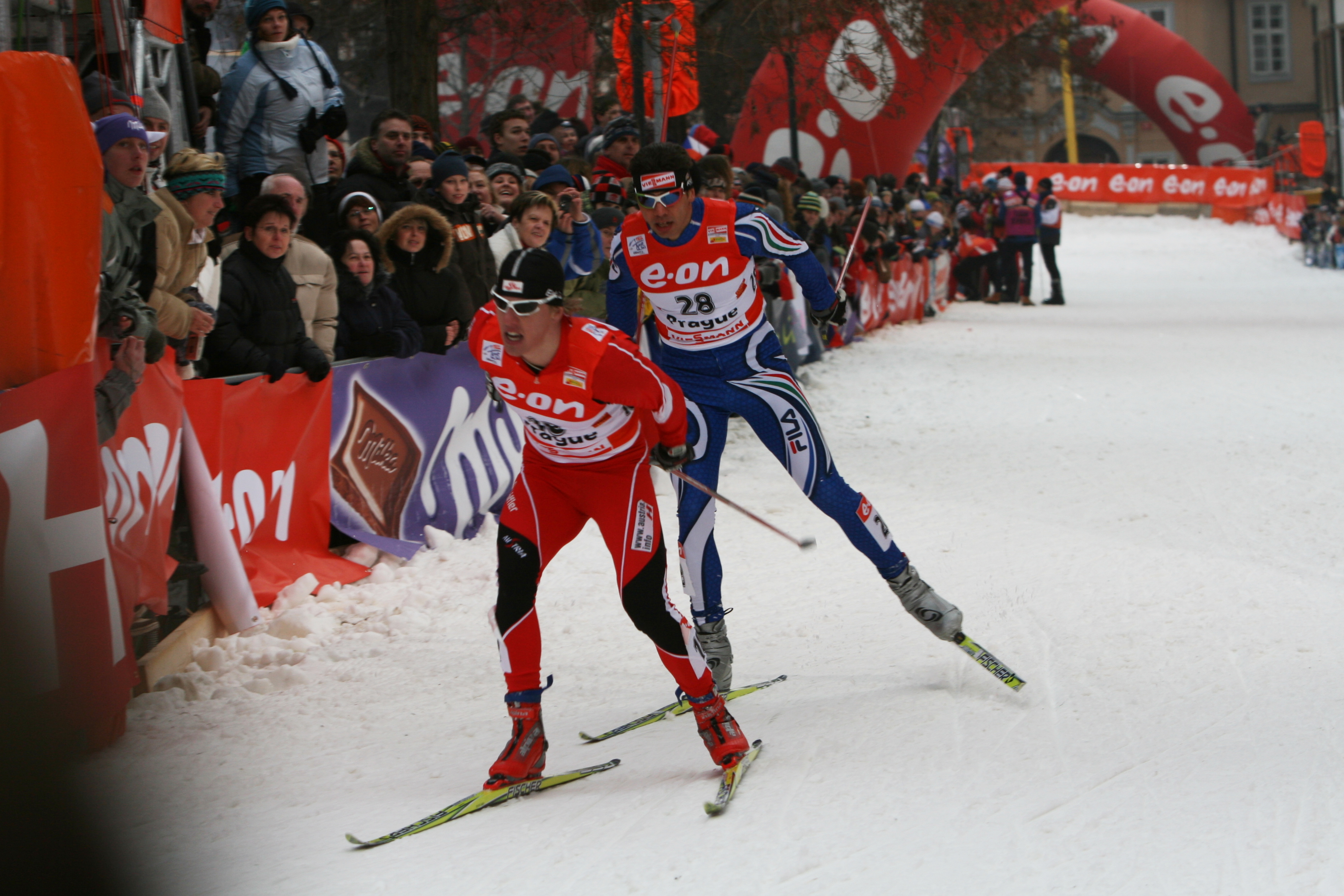 Cristian Zorzi #28 behind Harald Wurm #18 in the quarterfinals of Tour de ski in Prague